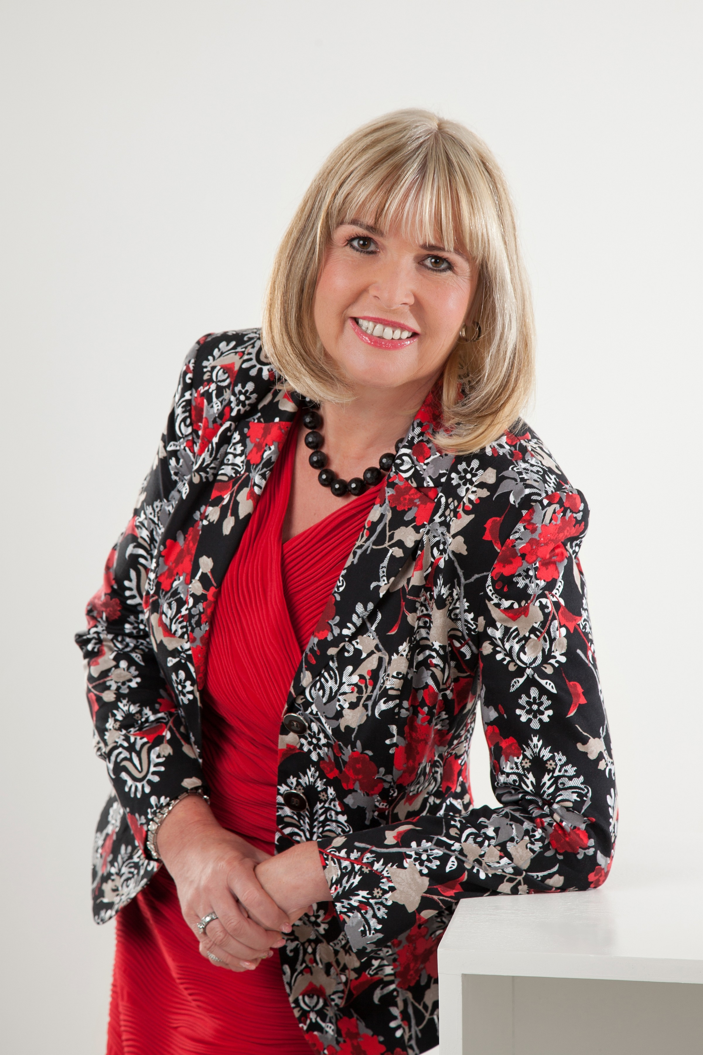 Andrea Gessl-Ranftl, Austrian politician (SPÖ) and member of the National Council